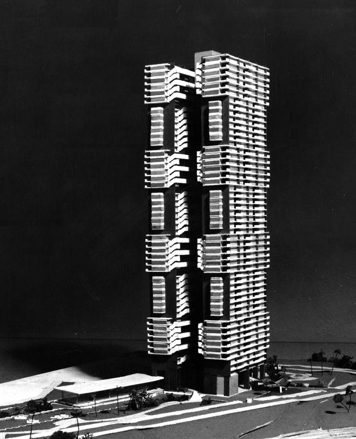 Martín Domínguez Esteban_Libertad-Maqueta-001